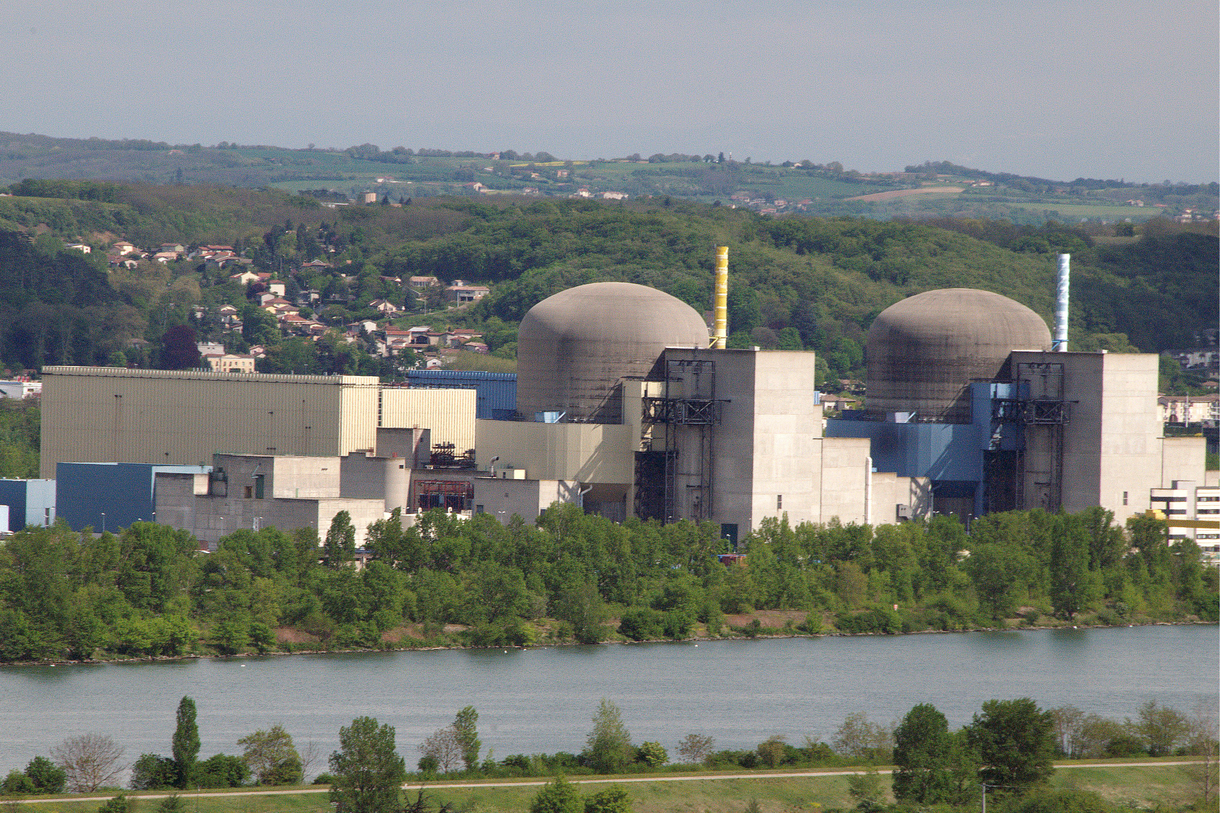 Nuclear power plant Saint-Alban, along the Rhône.